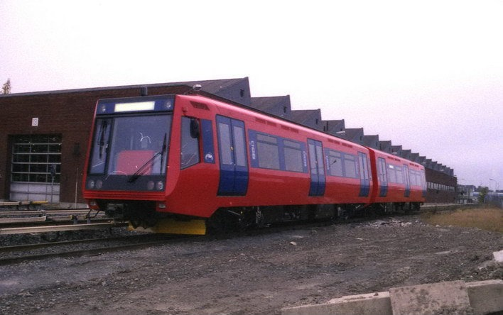 Oslo Metro T2004 and 2003 at Ryen; just delivered